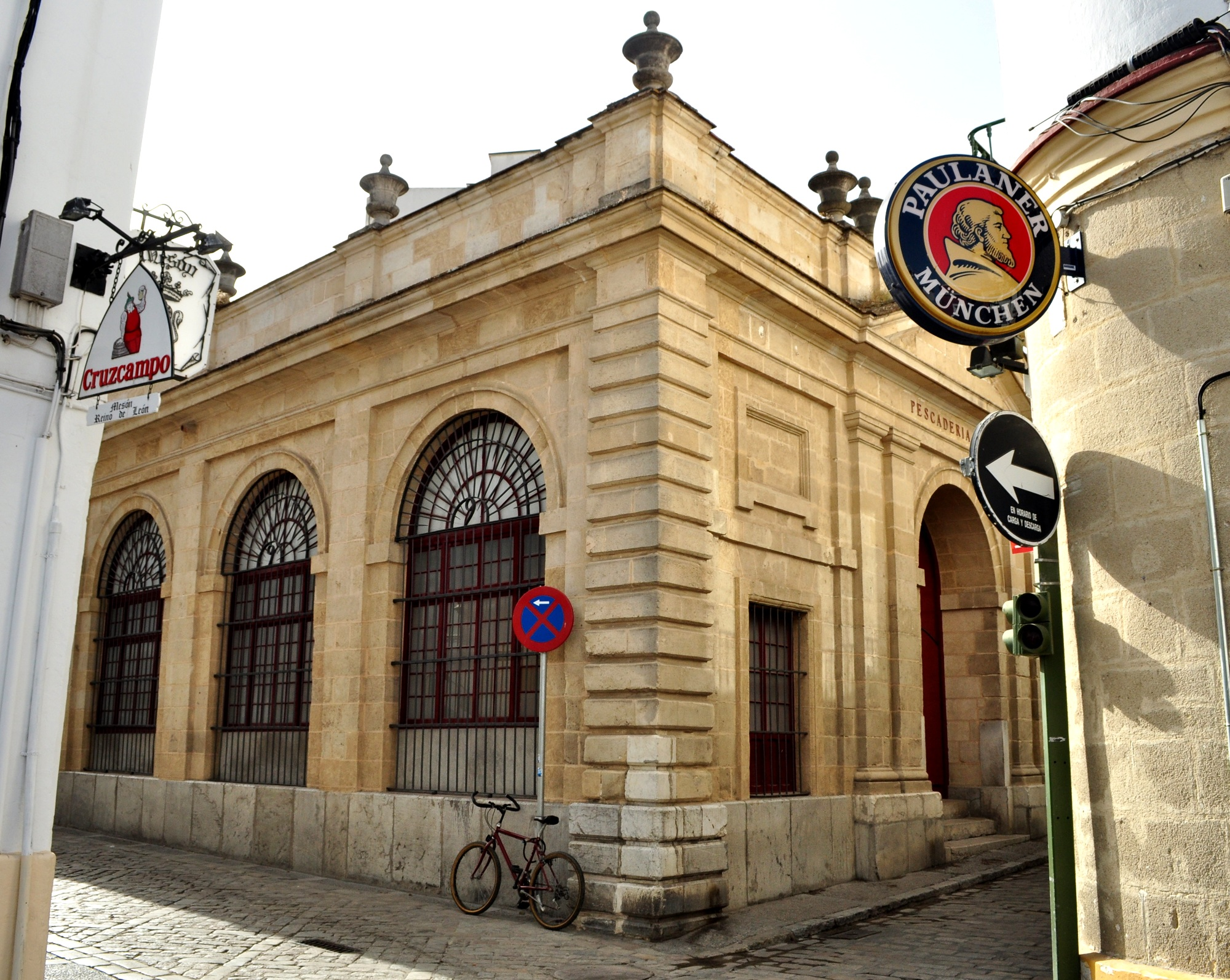 Old Fish Market Building. Cultural Centre. Jerez de la Frontera